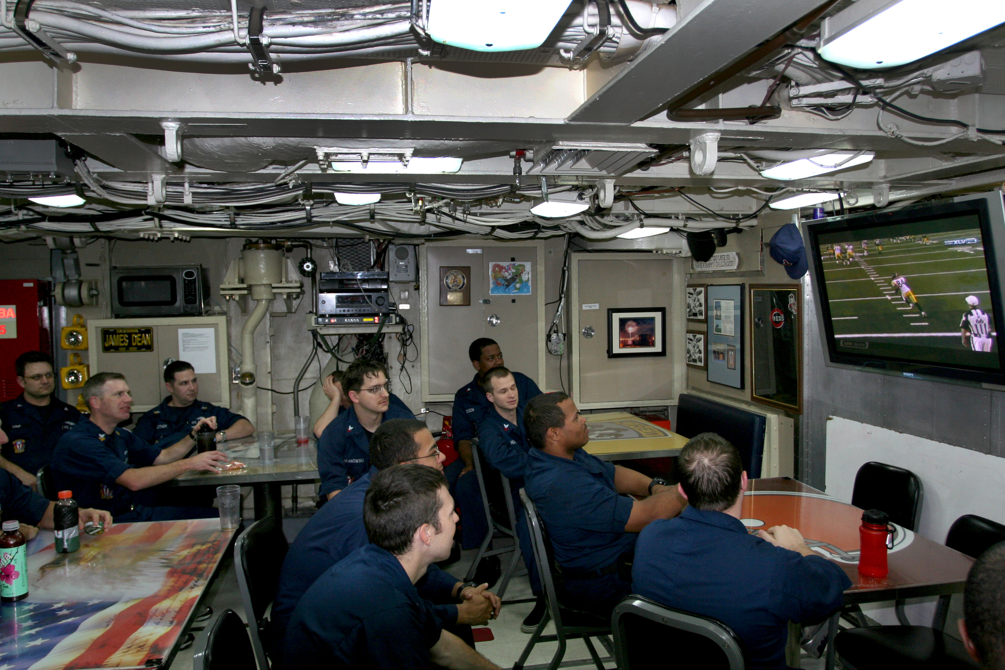 PACIFIC OCEAN (Feb. 6, 2011) The blue crew of the guided missile submarine USS Ohio (SSGN 726) watches Super Bowl XLV in the crew's mess while underway in the Pacific Ocean. (U.S. Navy photo by Sonar Technician Submarine 2nd Class Tristin Bomar/Released)